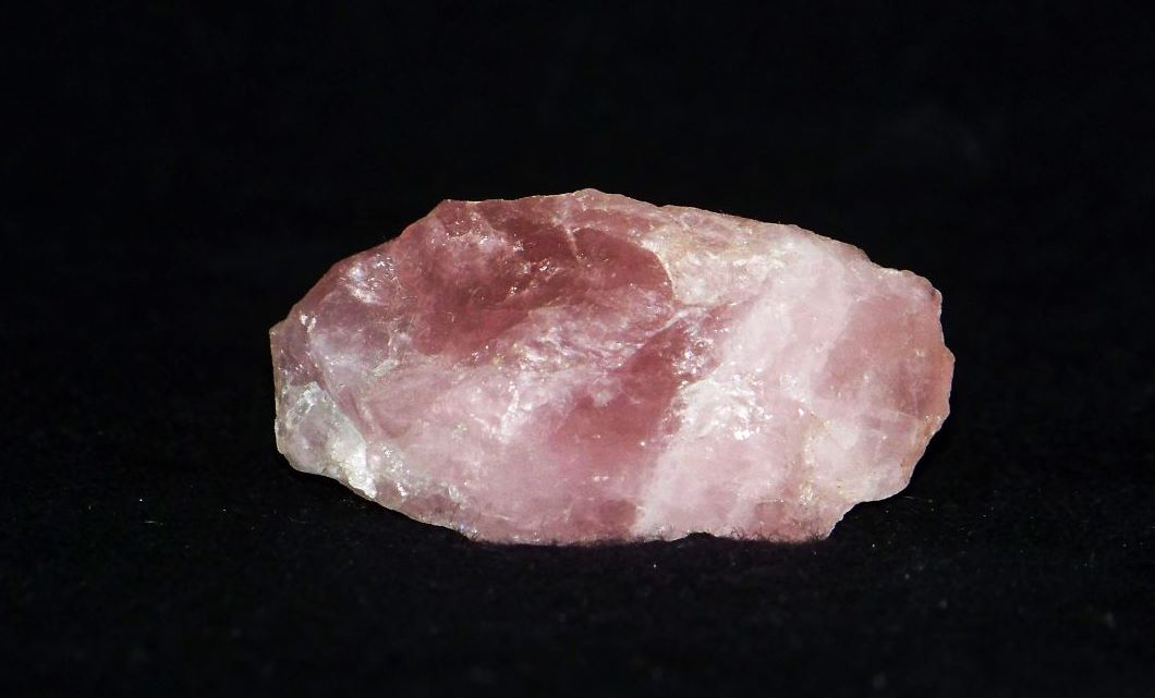 rose quartz